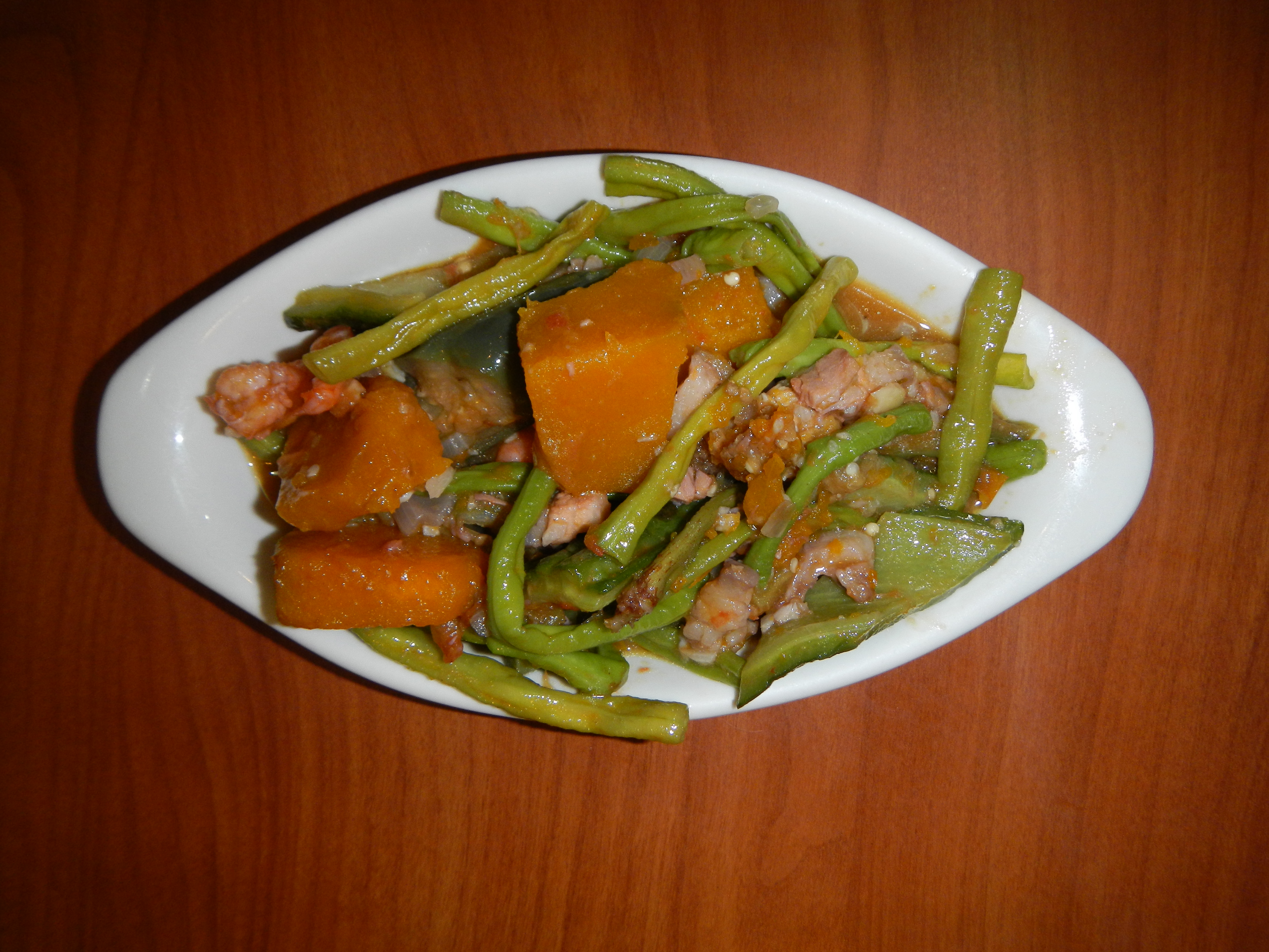 Pakbet, vegetables